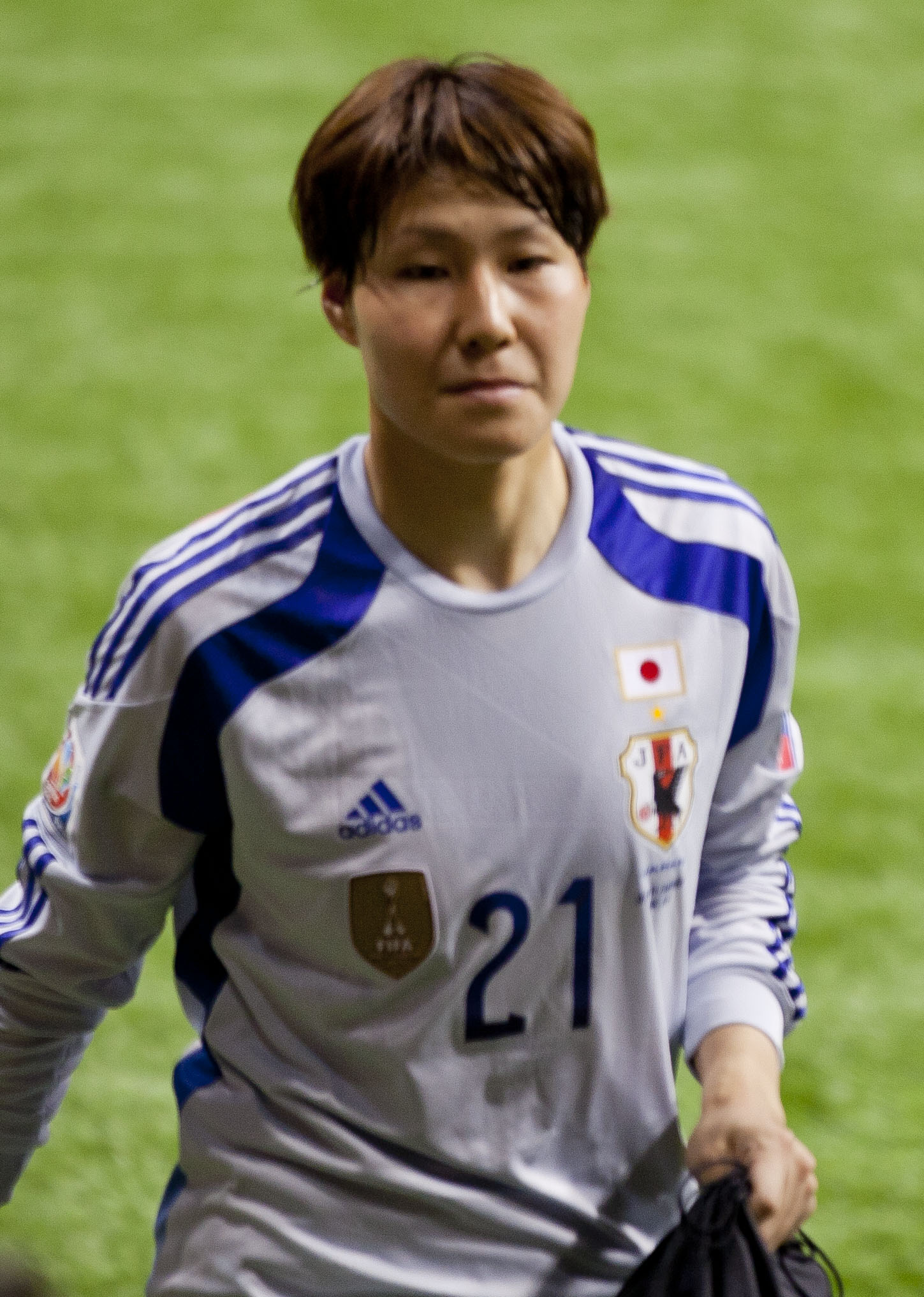 FIFA Women's World Cup Canada June 12th, 2015